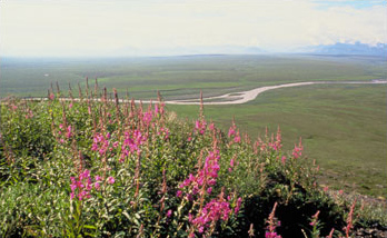 Photo of tundra vegetation on Alaska's coastal plain